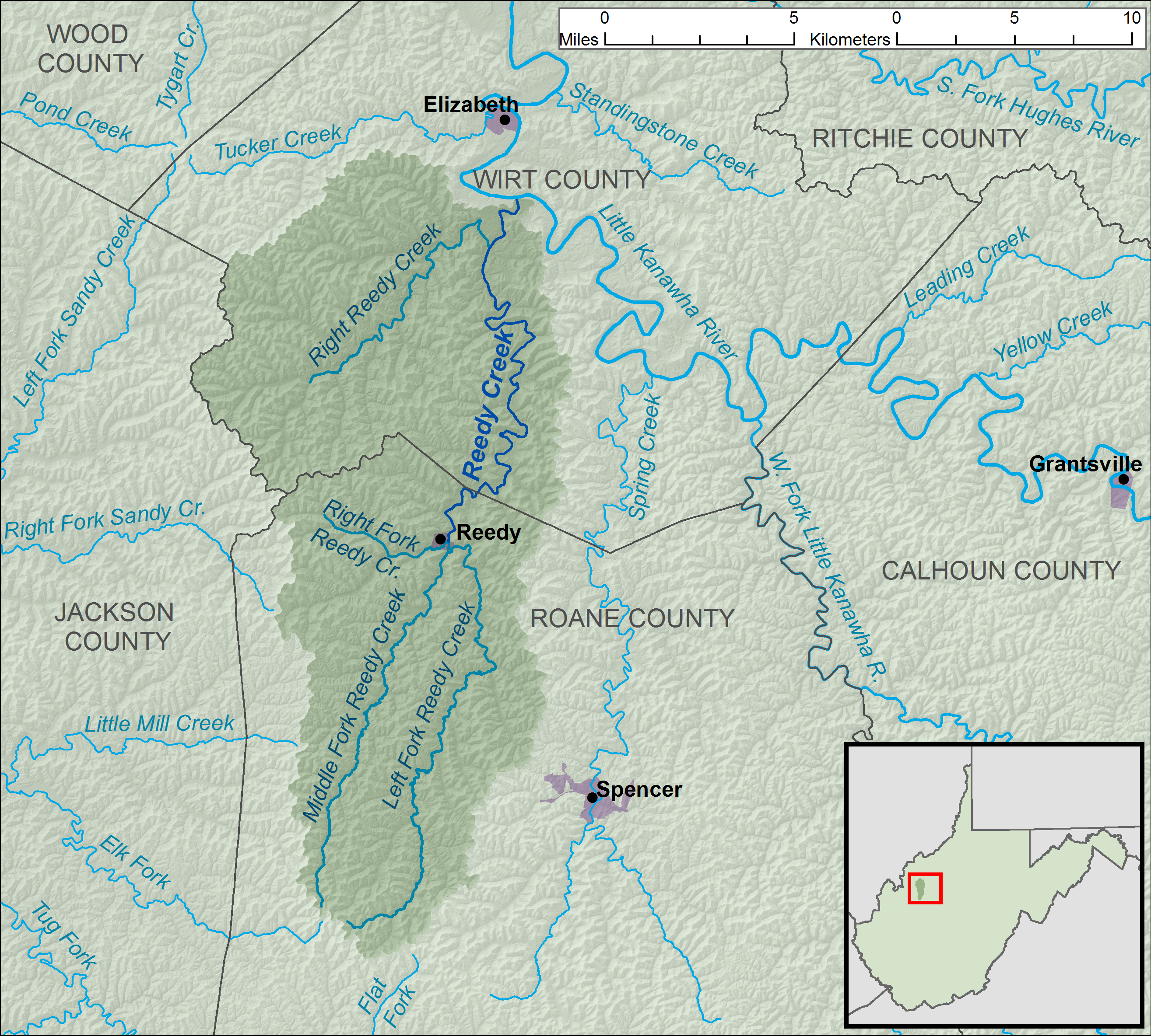 A map of Reedy Creek and its watershed (USGS HUC-12 codes 050302030803, 050302030802, and 050302030801), in Wirt and Roane counties, West Virginia.